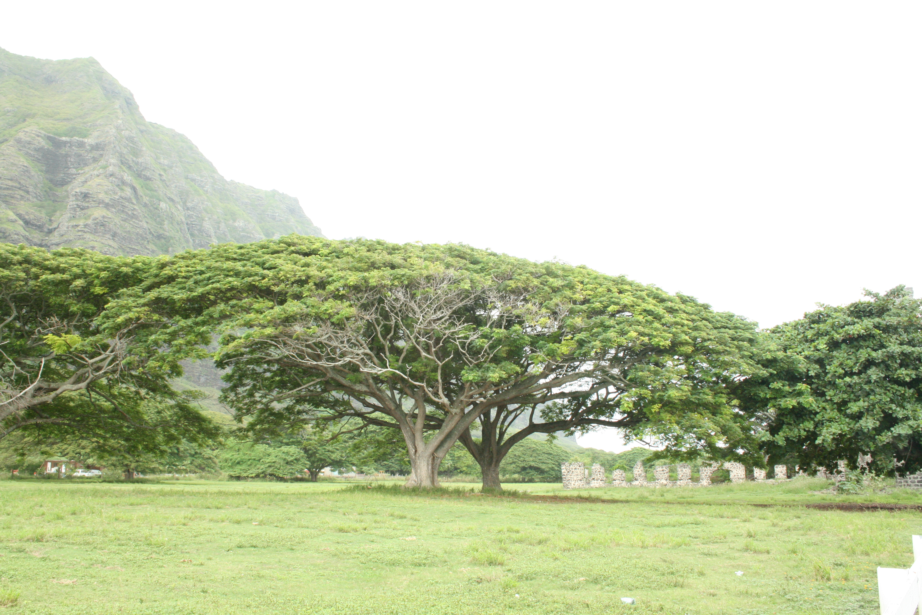 Monkey pod (Samanea saman), Oahu, Hawaii, USA